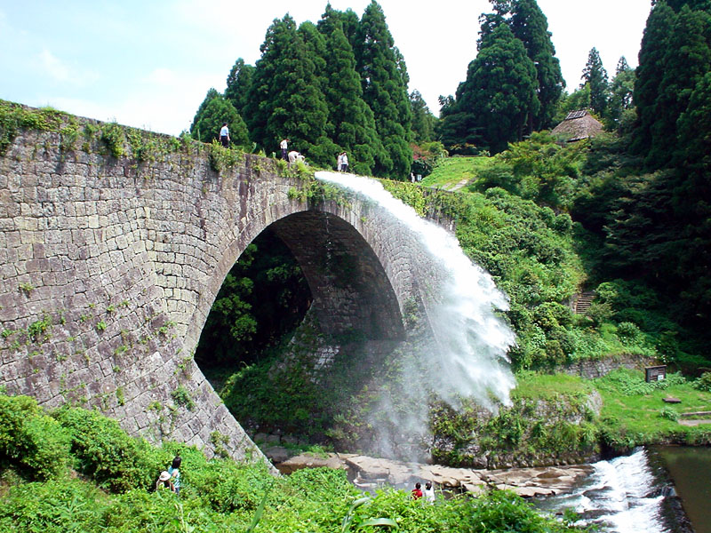 The Tsūjun Bridge is an aqueduct in Yamato, Kumamoto Prefecure, Japan.